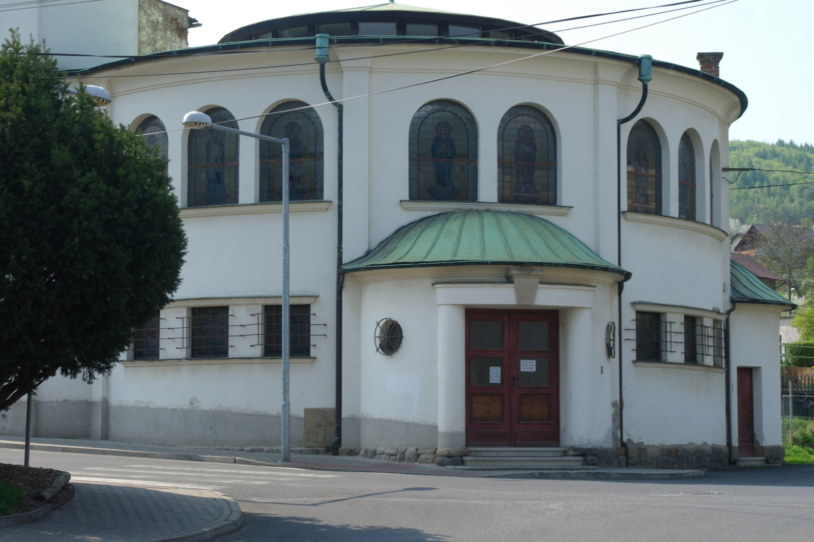 Church of the Visitation of the Virgin Mary, Povrly, Ústí nad Labem District, Ústí nad Labem Region. Built in 1936. Construction of circular ground plan with prismatic bell tower. East view.